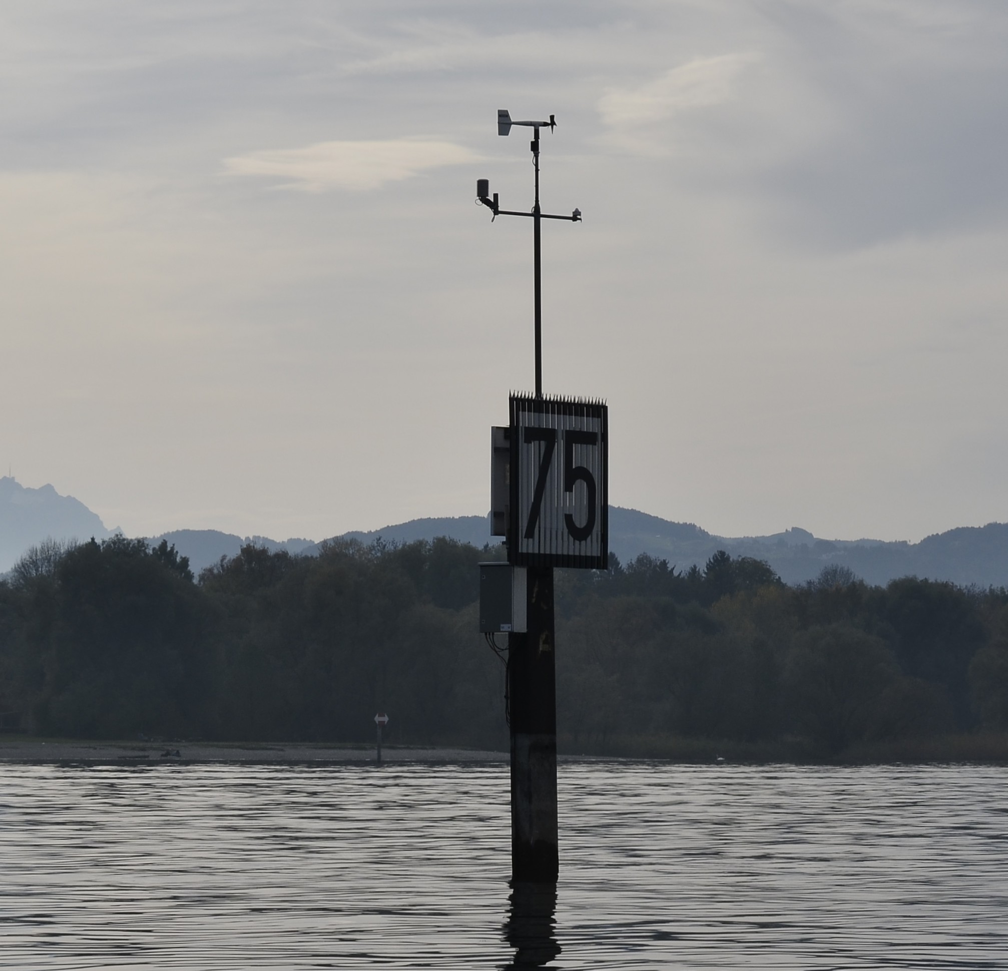 Sea mark on Lake Constance near Bregenz/Austria